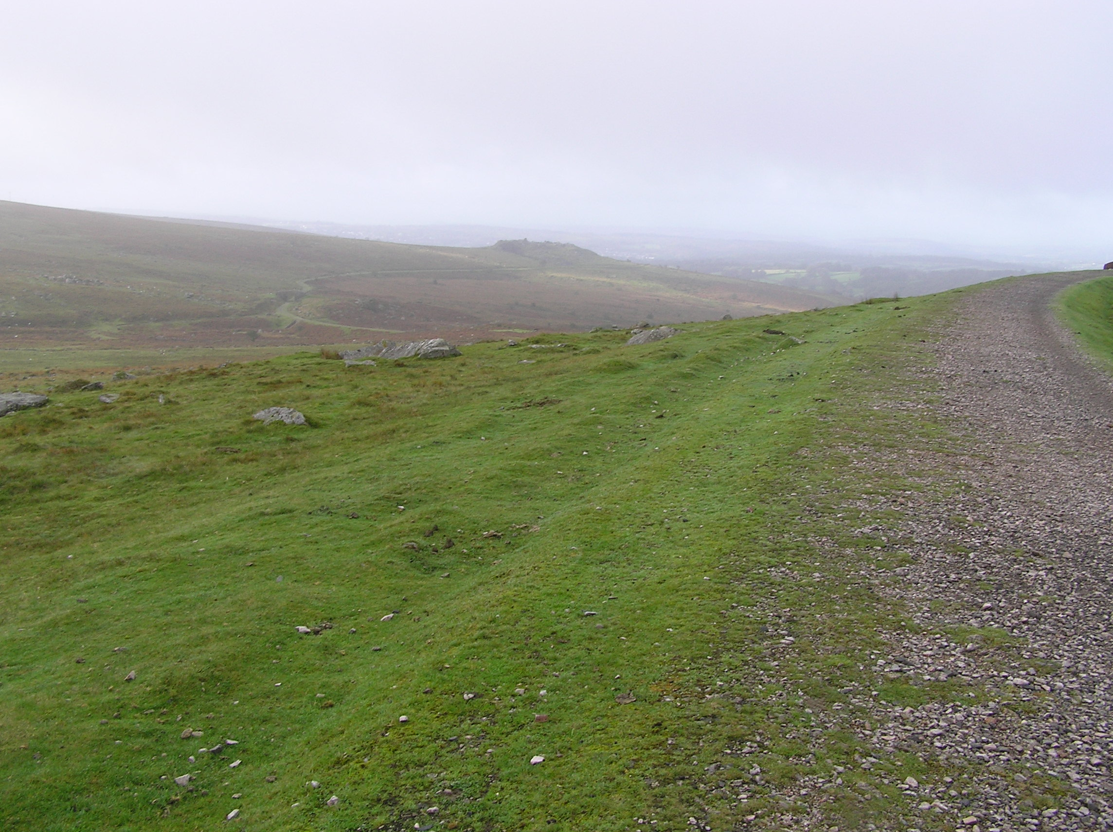 On Plymouth & Dartmoor Railway England near Foggintor